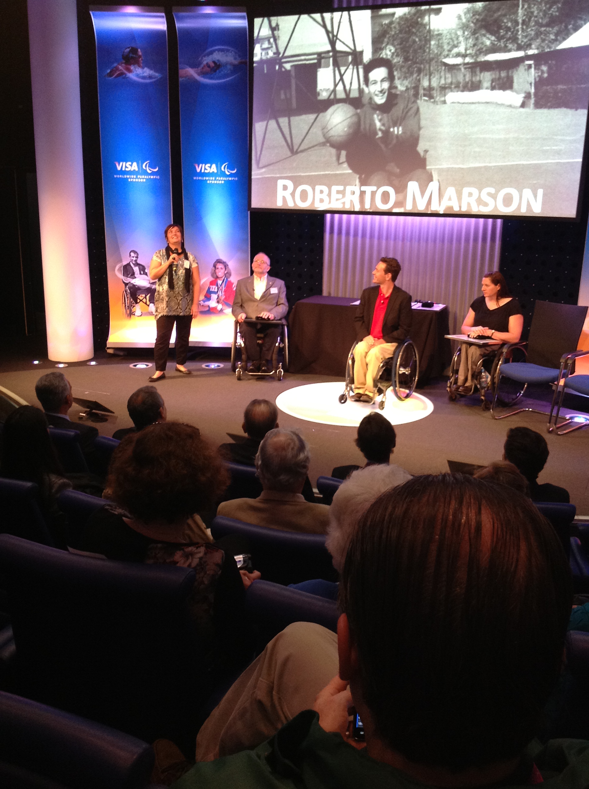 Picture from off Olympic venue taken at BT Centre of the IPC Hall of Fame induction ceremony. Roberto Marson's daughter Stefania Marson (left) accepts the posthumous award on his behalf. In wheelchairs, from left to right: Sir Philip Craven, Chris Waddell, Louise Sauvage